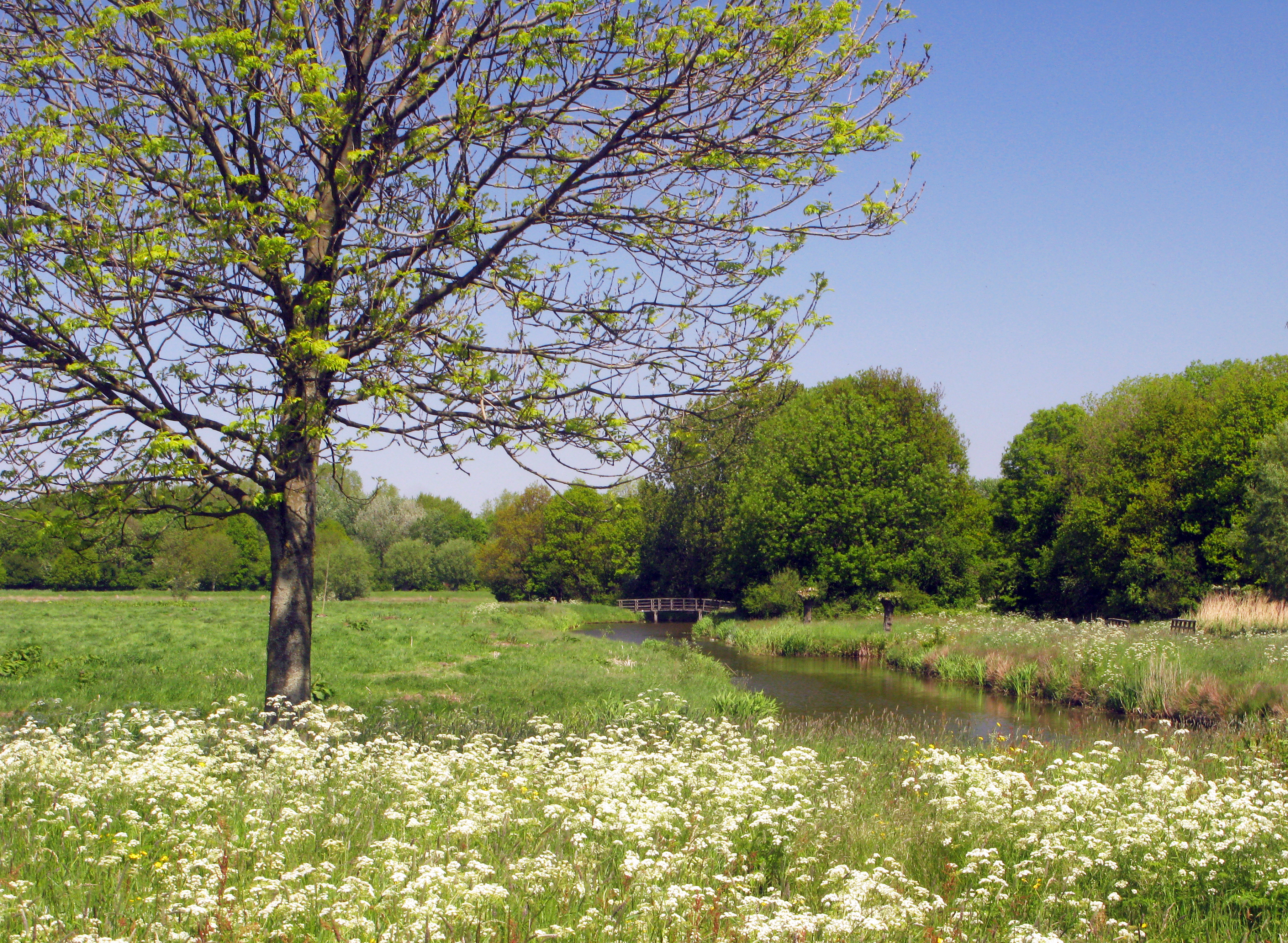 Polderpark Cronensteyn, Leiden, The Netherlands